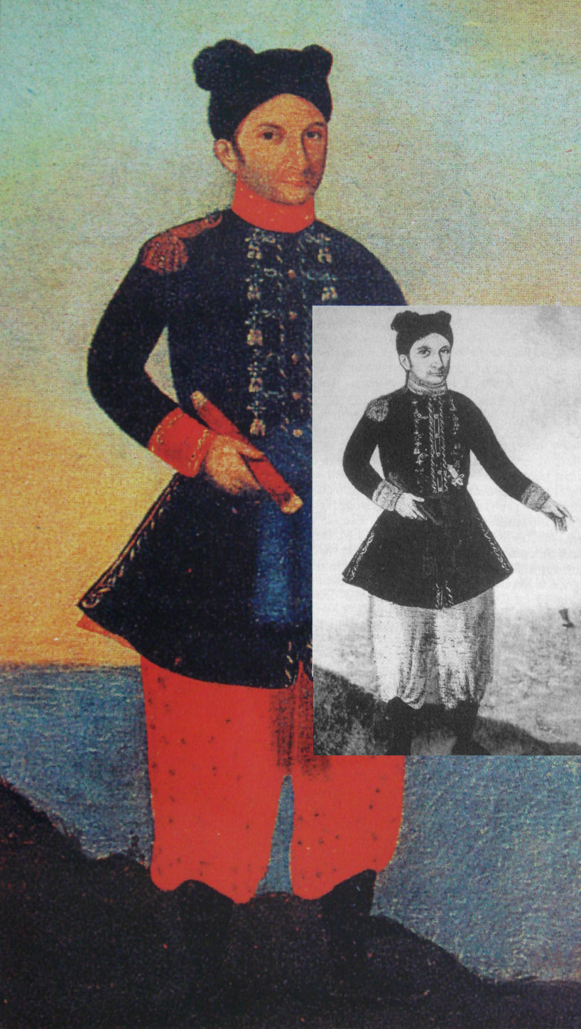 Two paintings of Jean-Baptiste Chaigneau (composite by PHGCOM)